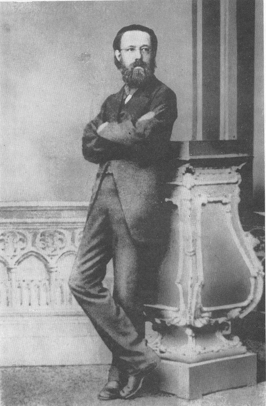 Bedřich Smetana, a photograph by an unknown author, early 1860s